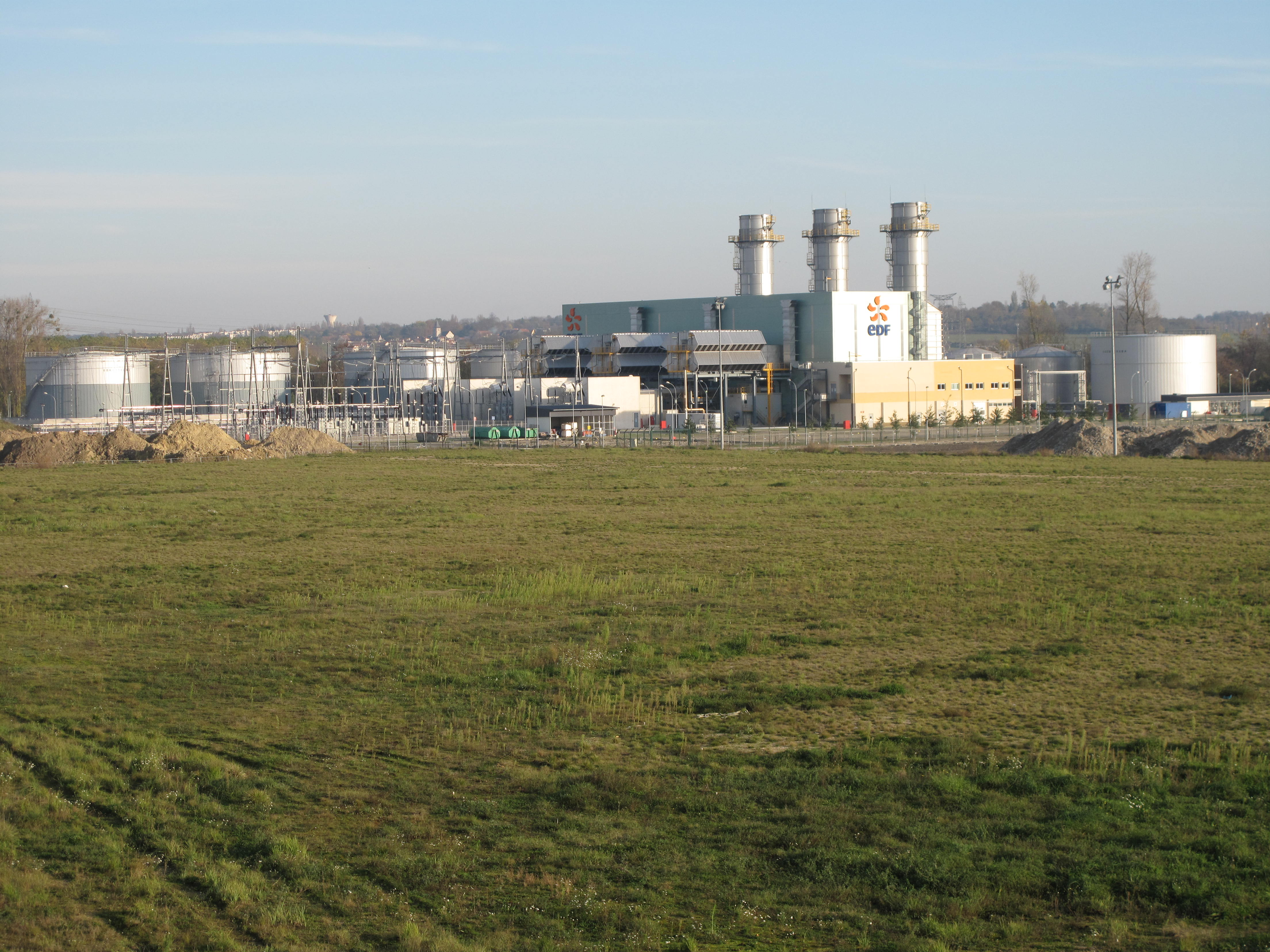 New oil-fired power plant of Vaires-sur-Marne, Seine-et-Marne, France.